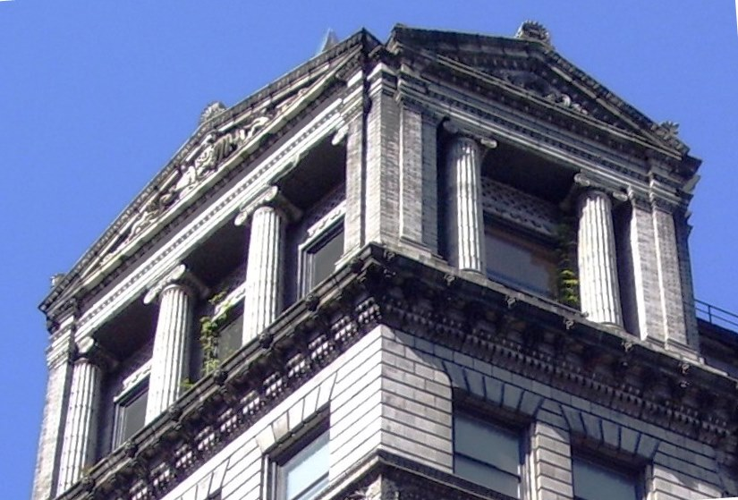 The Bauodouine Building at 1181-1183 Broadway (also known as 22 West 28th Street) at the corner of West 28th Street in the NoMad neighborhood of Manhattan, New York City, was built in 1895-96 and was designed by Alfred Zucker in the Classical Revival style. It was a store and office tower which replaced a hotel, and is topped by a Greco-Roman temple. The building lies within the Madison Square North Historic District. (Source: "NYCLPC Madison Square North Historic District Designation Report")